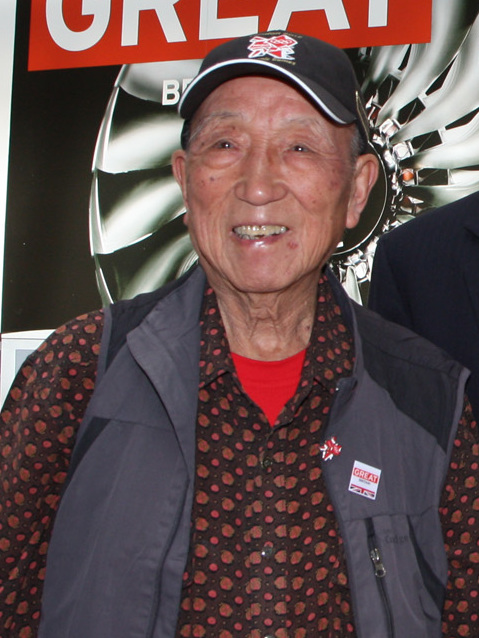 Wu Chengzhang at the 1948 London Olympic Games, 6 August 2012. Read more